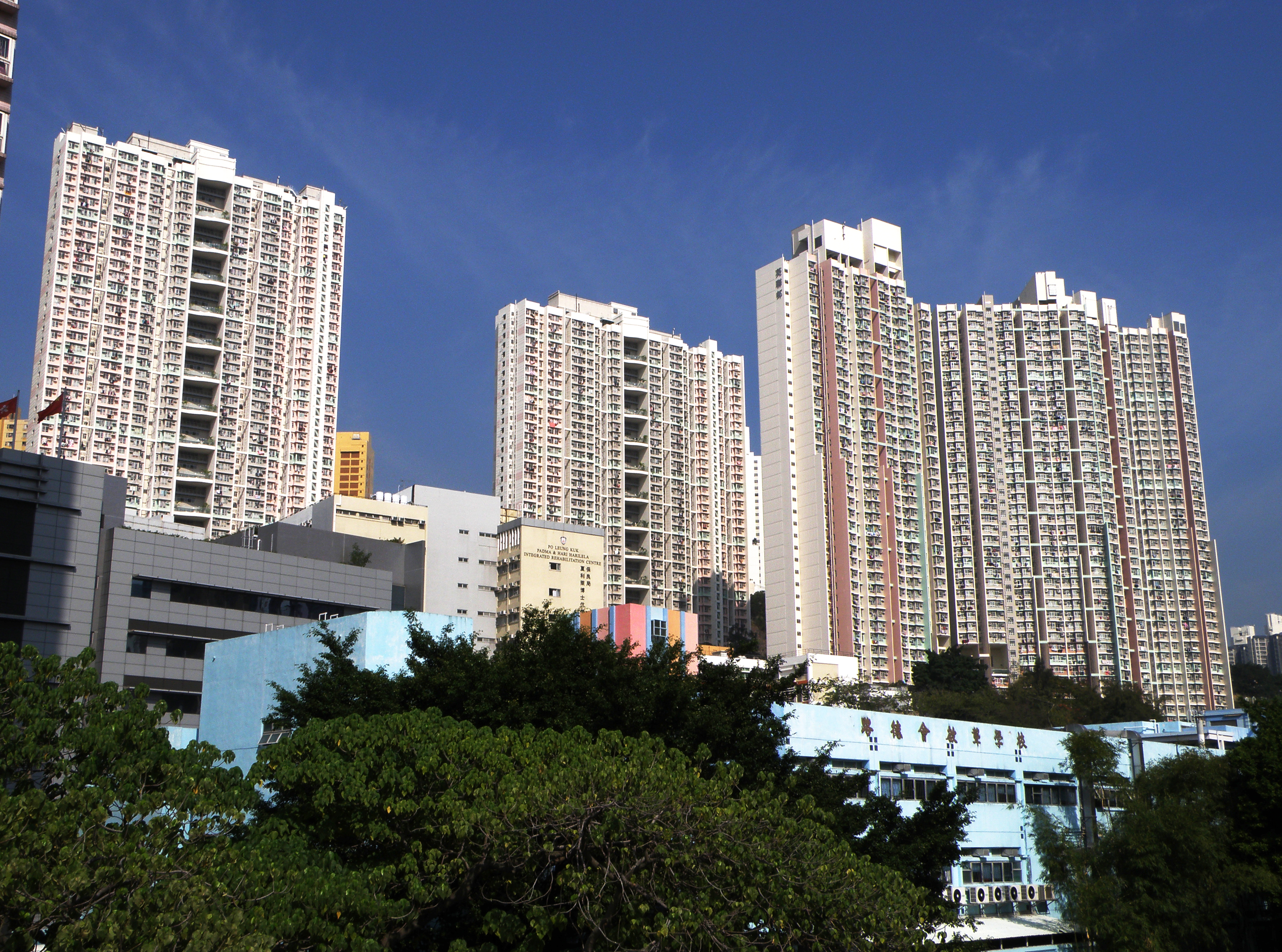 Kwai Luen Estate in Kwai Shing, Hong Kong.